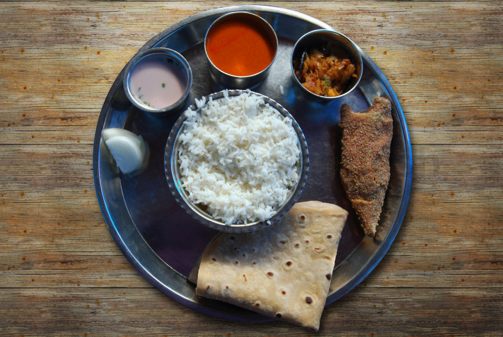 Solkadi and Bangda Fry. A typical Malvani cuisine.